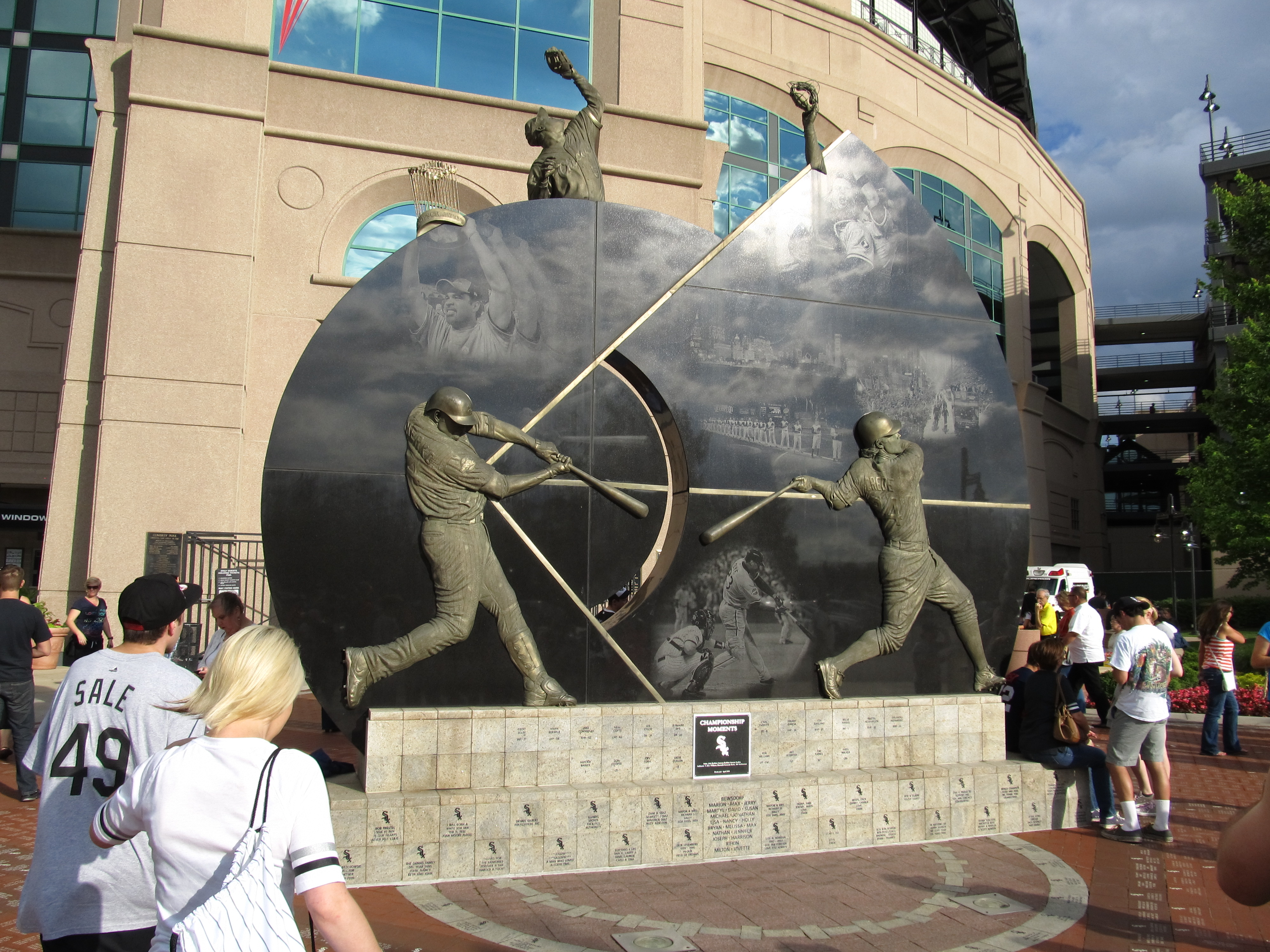 Cleveland Indians v. Chicago White Sox U.S. Cellular Field (formerly Comiskey Park) is a baseball park in Chicago, Illinois. It is the home of the Chicago White Sox of Major League Baseball's American League. The park is owned by the Illinois Sports Facilities Authority, but operated by the White Sox. The park opened for the 1991 season, after the White Sox had spent 81 years at the original Comiskey Park. The new park, completed at a cost of US$167 million, also opened with the Comiskey Park name, but became U.S. Cellular Field in 2003 after U.S. Cellular bought the naming rights at $68 million over 20 years. It hosted the MLB All-Star Game that same year. Many sportscasters and fans continue to use the name Comiskey Park. Prior to its demolition, the old Comiskey Park was the oldest in-use ballpark in Major League Baseball, a title now held by Fenway Park in Boston. The stadium is situated just to the west of the Dan Ryan Expressway in Chicago's Armour Square neighborhood. It was built directly across 35th Street from old Comiskey Park, which was demolished to make room for a parking lot that serves the venue. Old Comiskey's home plate is a marble plaque on the sidewalk next to U.S. Cellular Field and the foul lines are painted in the parking lot. Also, the spectator ramp across 35th Street is designed in such a way (partly curved, partly straight but angling east-northeast) that it echoes the contour of the old first-base grandstand.